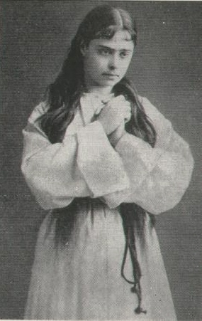 Evlaliia Kadmina as Bertha in Meyerbeer's "Le Prophète" in Kharkov in 1880